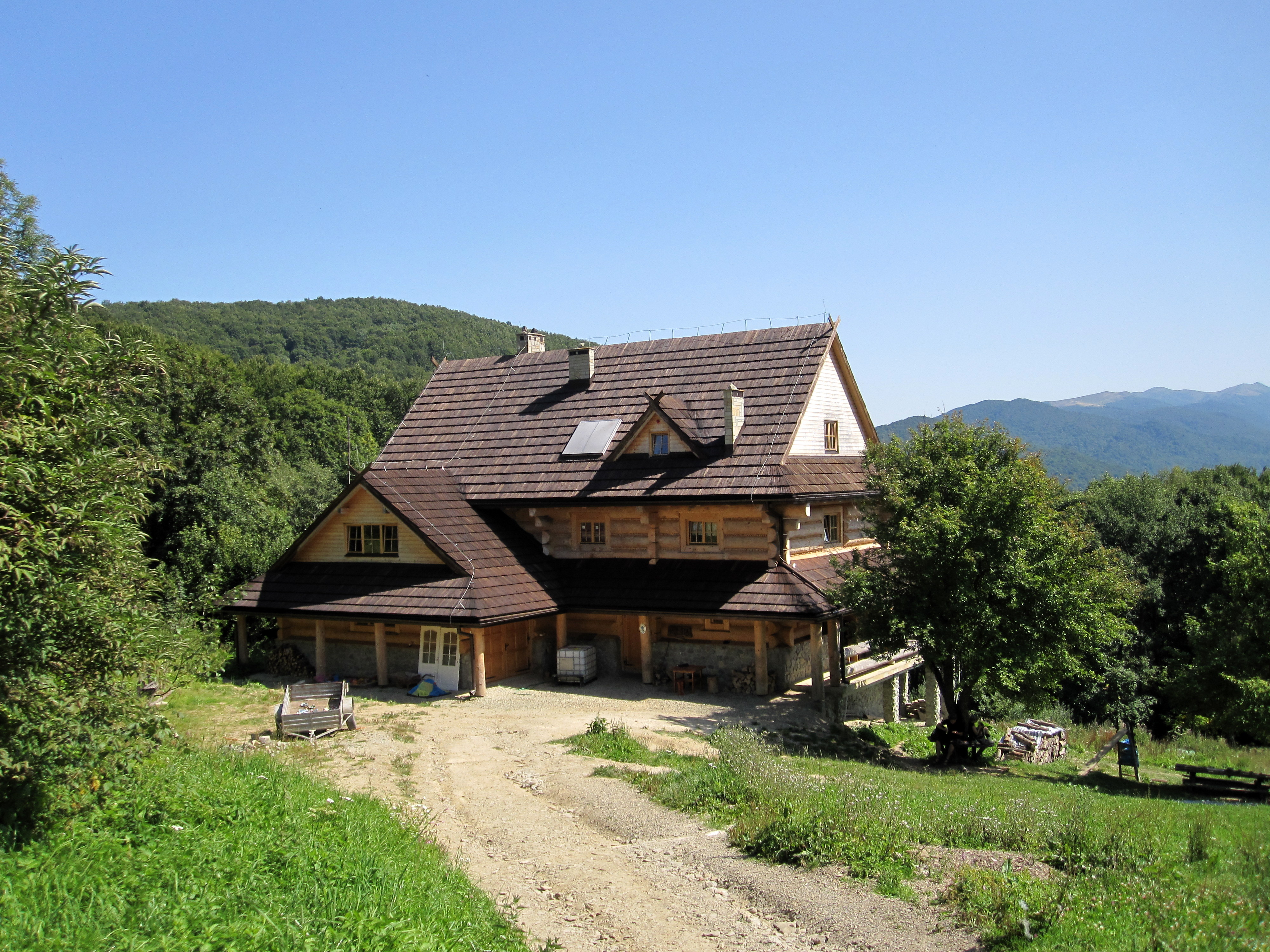 Przysłup Caryński, "Koliba" shelter